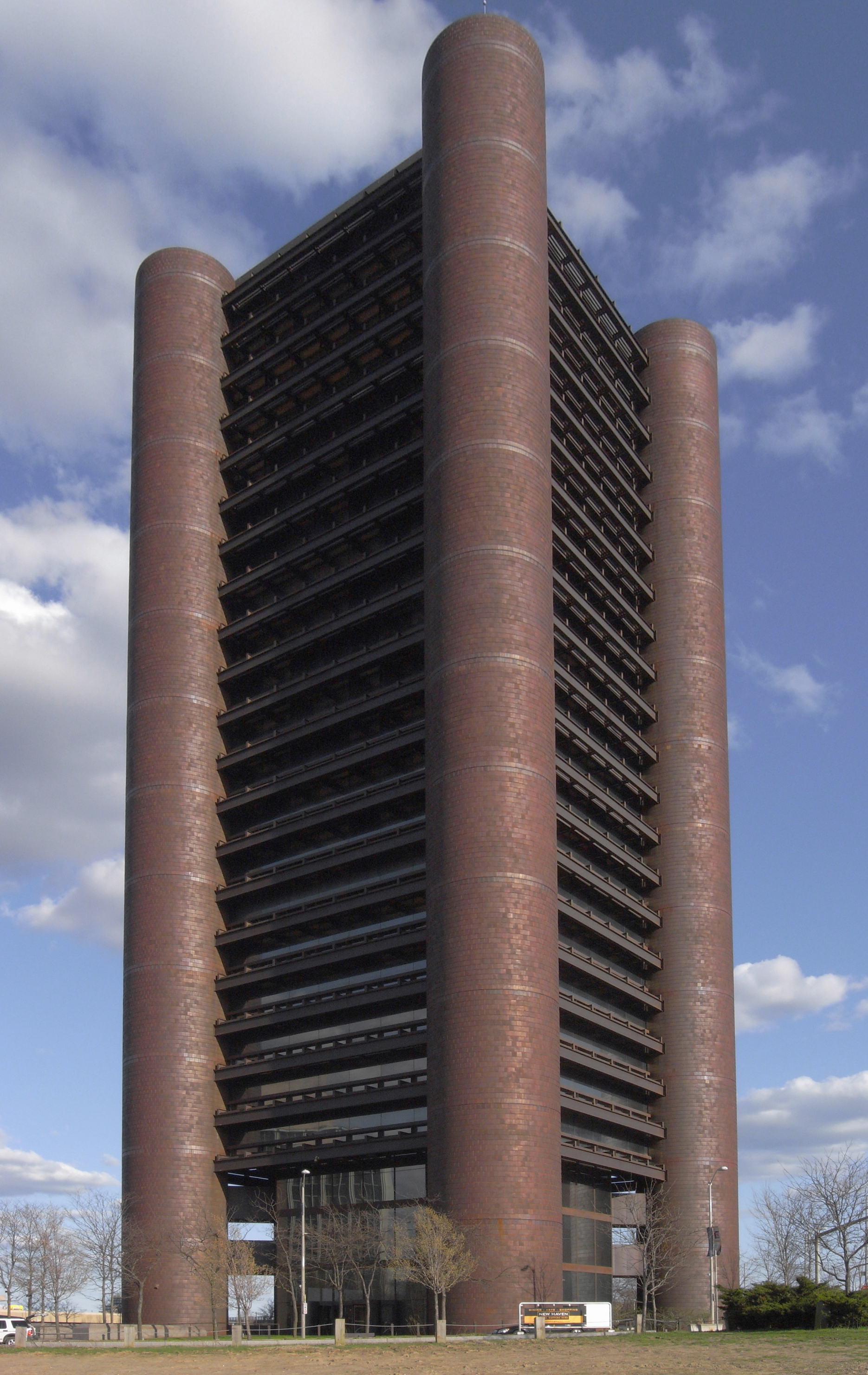 Knights of Columbus headquarters in New Haven, Connecticut architects: Kevin Roche & John Dinkeloo